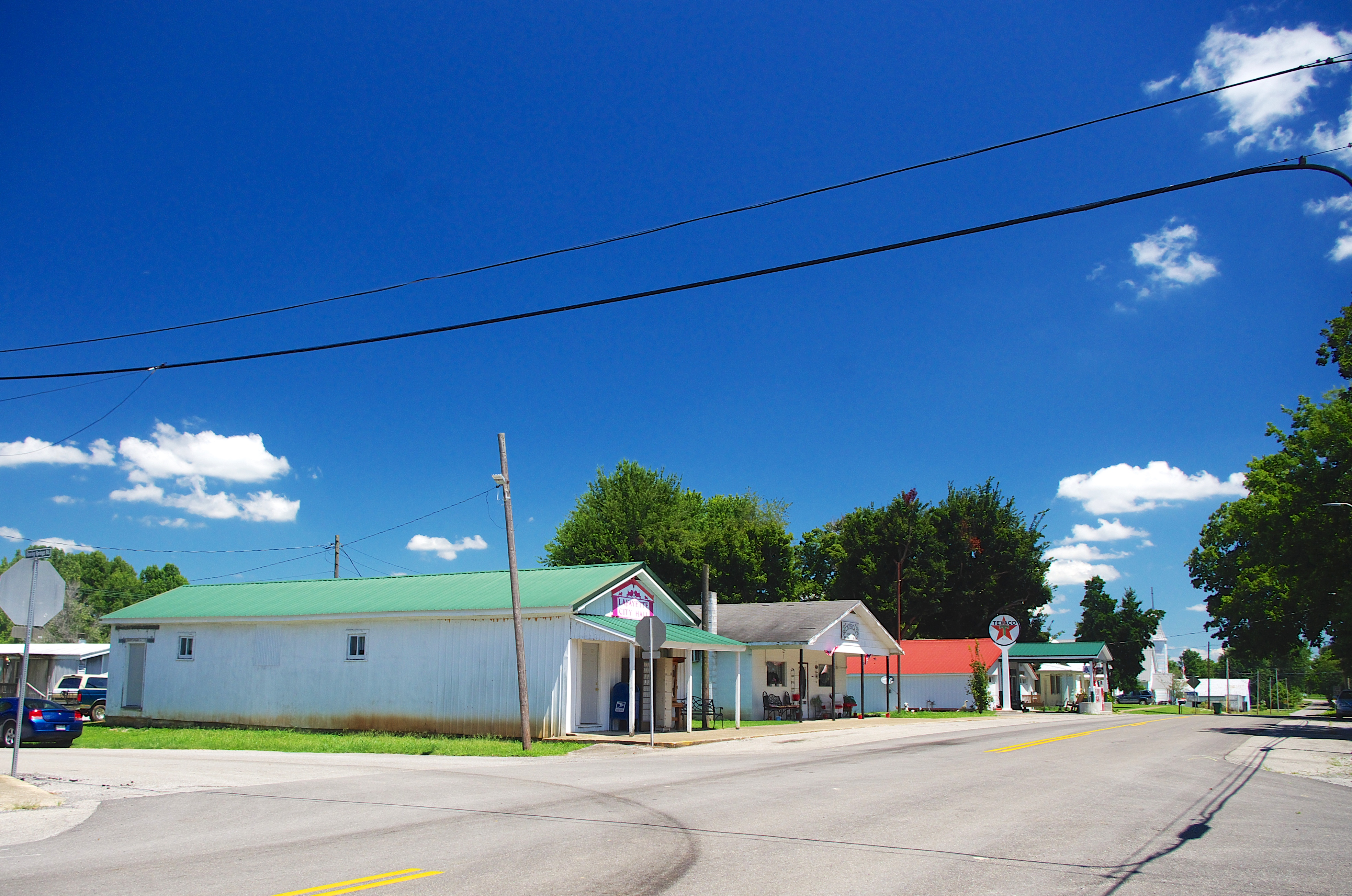 Buildings along Lafayette Road (Kentucky Route 107) in LaFayette, Kentucky, United States.